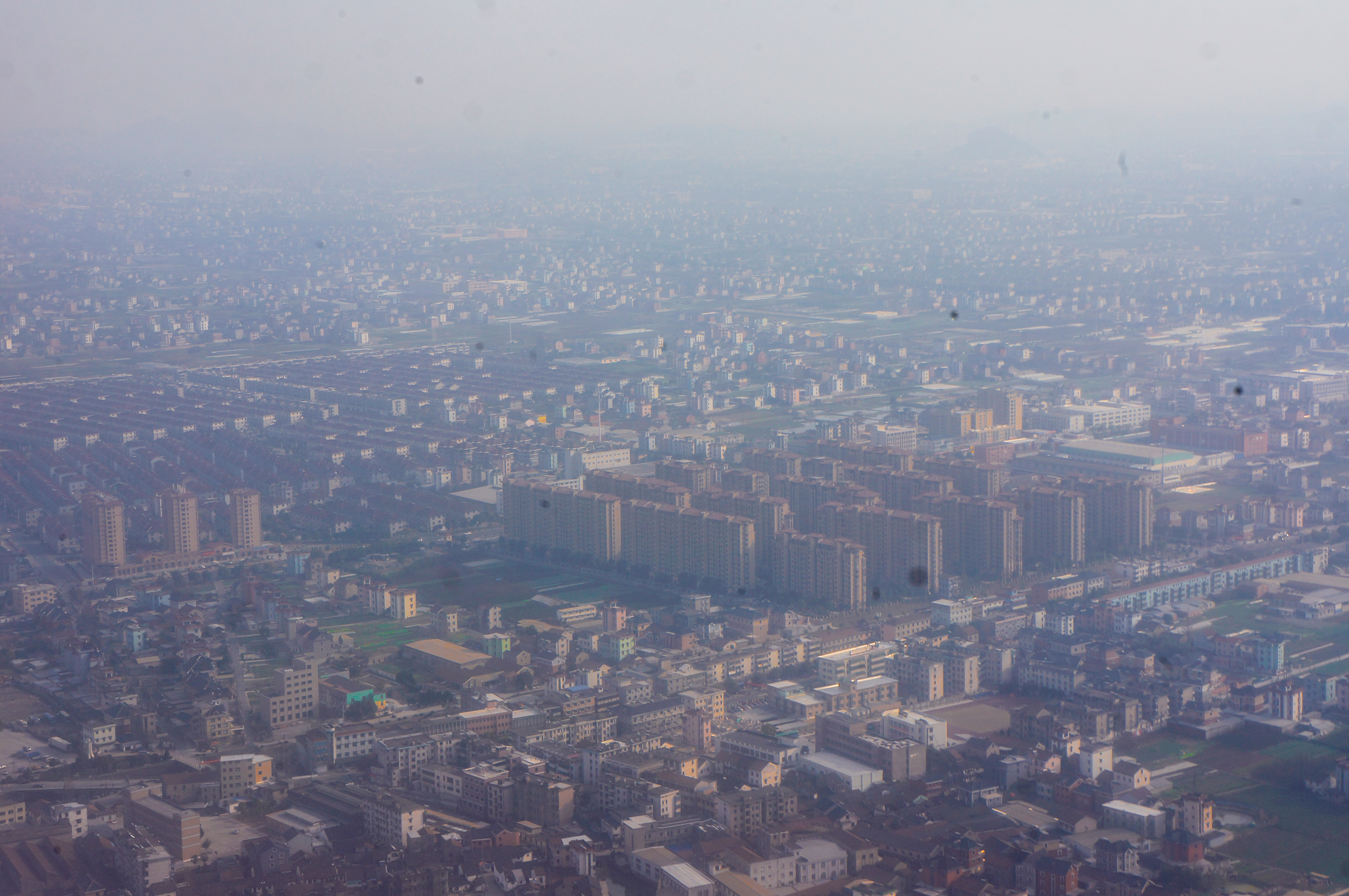 201701 Aerial photo of Jingjiang, Xiaoshan.